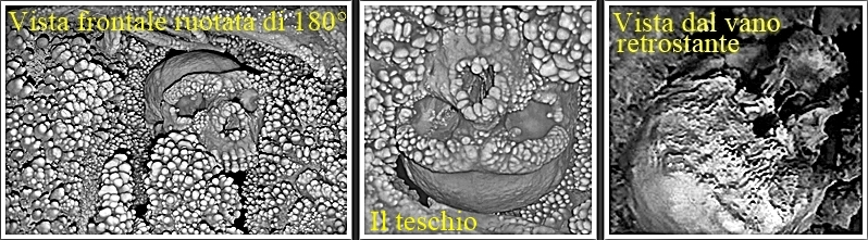 Image of hominid skeleton